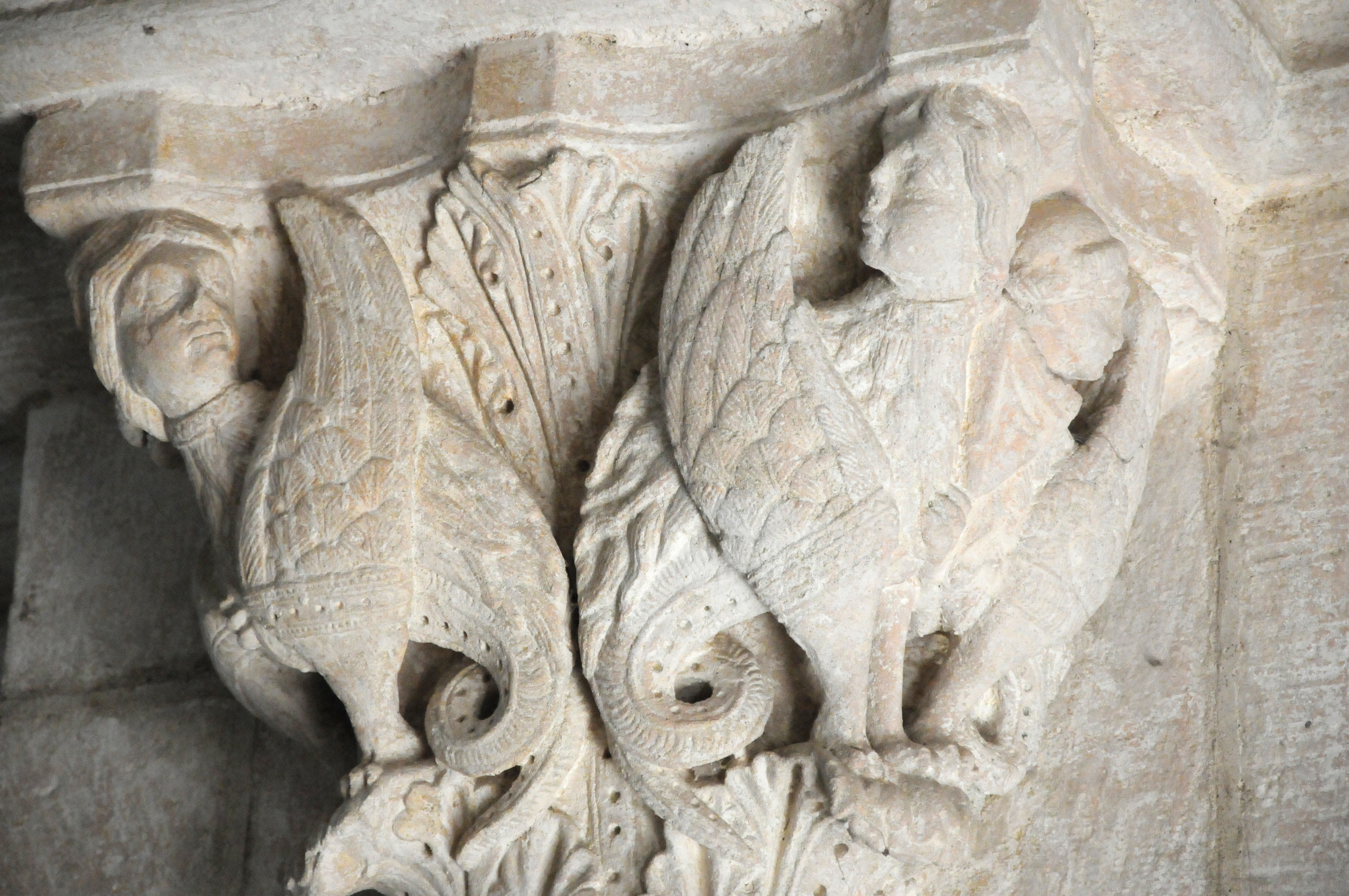 The church Saint Florent et Saint Honoré, Til-Châtel, Burgundy, France